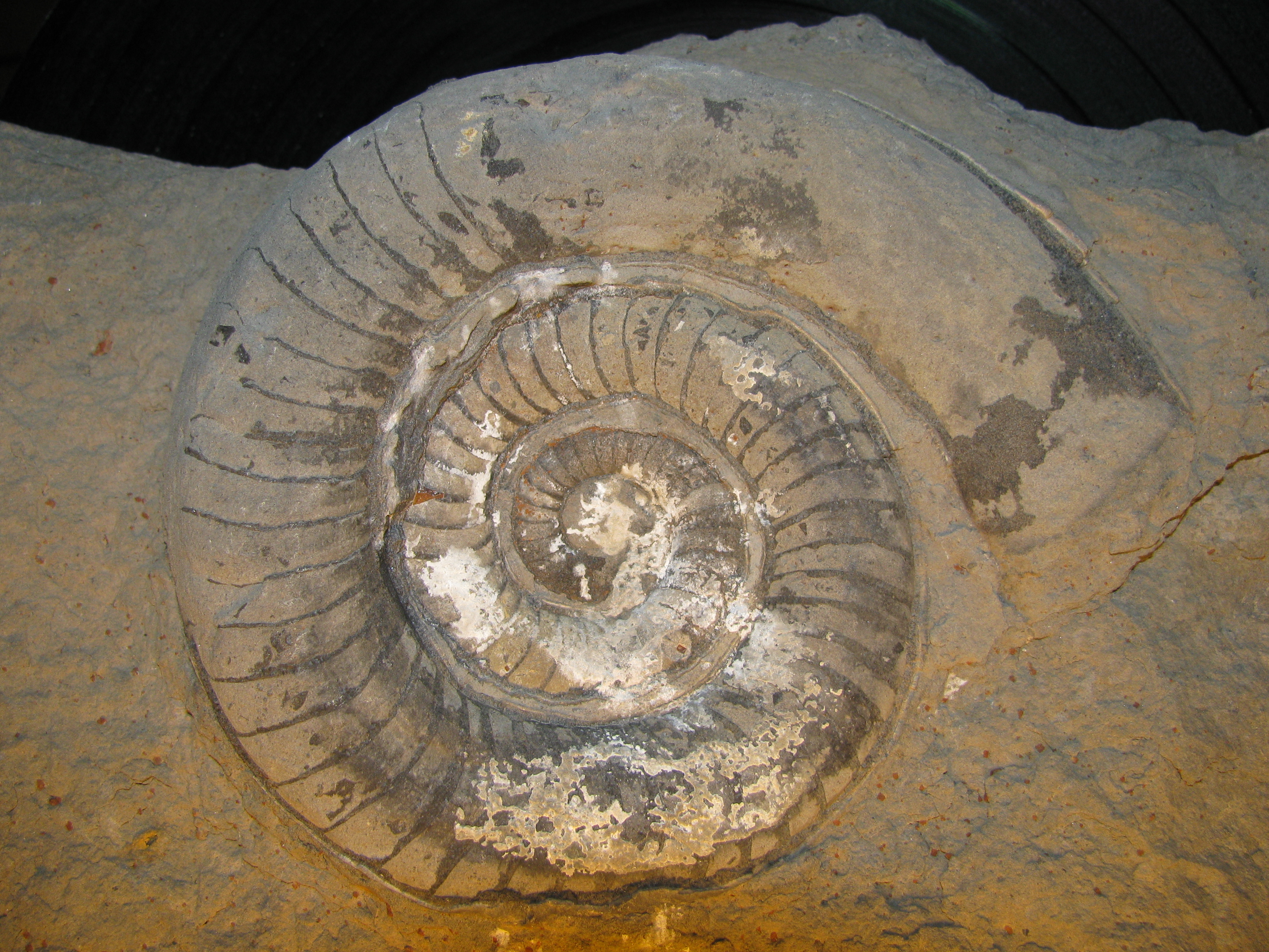 Discoceras boreale species fossil found at Herøya, Porsgrunn, Norway.